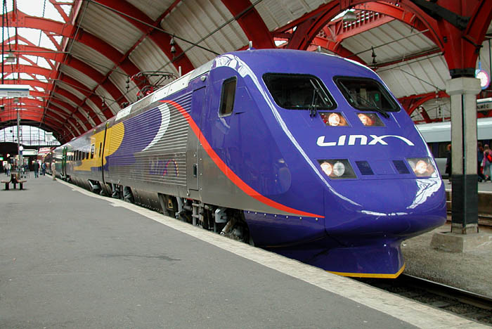 Linxtåg på Malmö C.